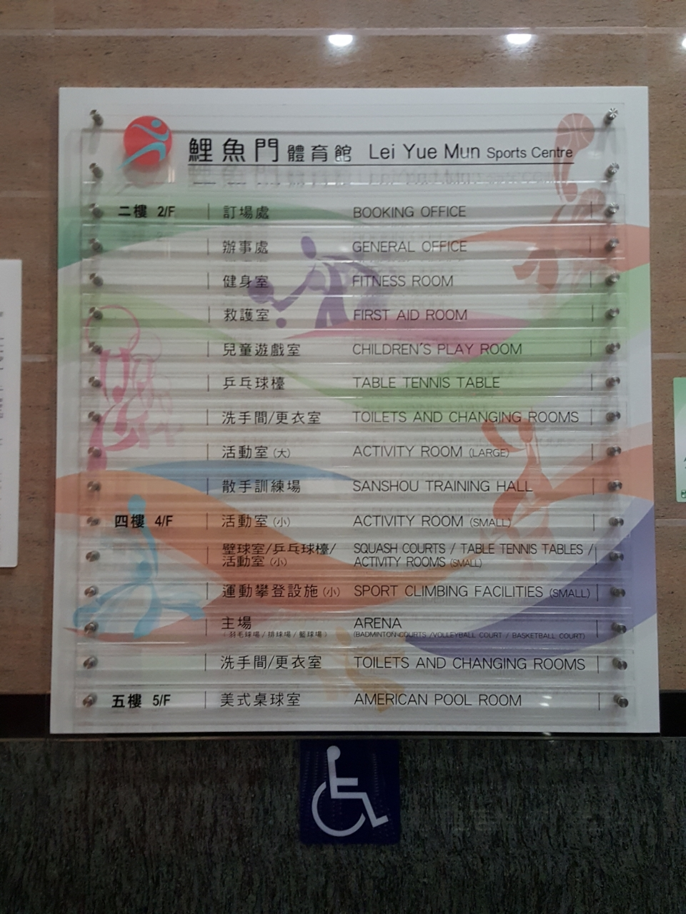 Lei Yue Mun Sports Centre Directory